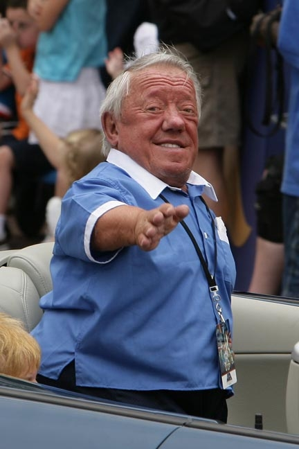 Kenny Baker. Best known as the man inside the R2-D2 suit in the original Star Wars films. Orginal description: Star Wars legend Kenny Baker was a crowd favorite as he delighted the fans on Opening Day with stories from his days as an astromech droid. Photo by Matt Stroshane. For video coverage of the first Disney Weekend of 2007, click here.